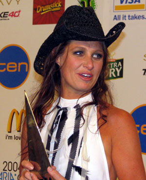 Kasey Chambers at the 2004 ARIA Awards, Australia.